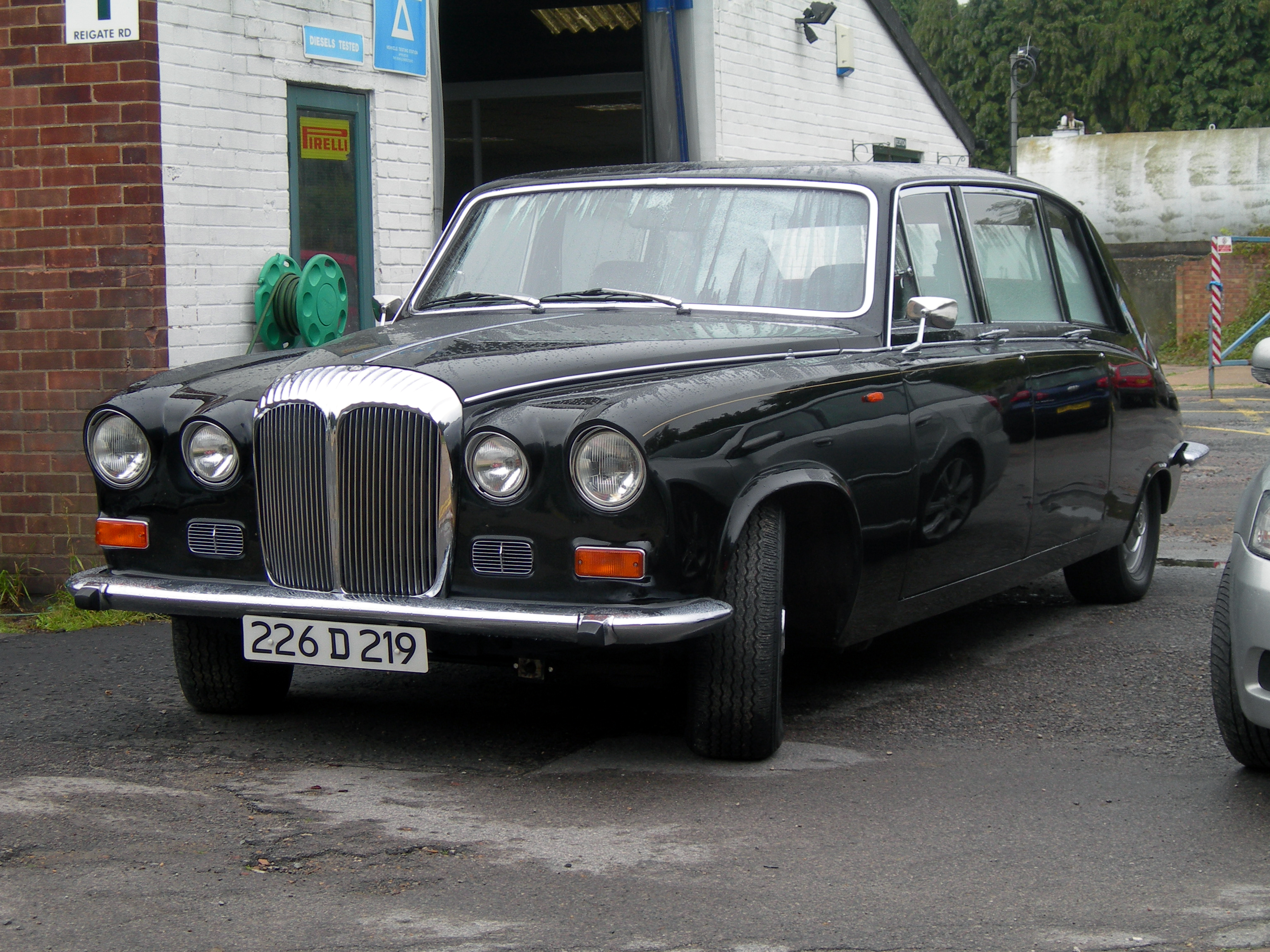 in a garage in Reigate,Sep 2010